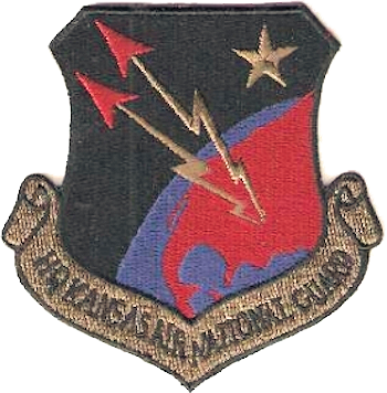 Kansas Air National Guard - Emblem.